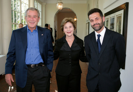 President George W. Bush and Mrs. Laura Bush welcome author Khaled Hosseini to the White House for a screening Sunday, Sept. 16, 2007, of the film adaptation of Hosseini's novel, "The Kite Runner," a fictional story of the friendship between Amir, a privileged boy, and Hassan, the son of his father's servant, in Afghanistan during the last days of the monarchy through the rule of the Taliban. Guests at the screening included: Vice President Dick Cheney; Secretary of Defense Robert Gates; Chairman of the Joint Chiefs of Staff General Peter Pace; National Security Advisor Stephen Hadley; Ambassador Said T. Jawad of Afghanistan; former U.S. Ambassador to Afghanistan, now U.S. Ambassador to the United Nations Zalmay Khalilzad; former U.S. Ambassador to Afghanistan Ronald E. Neumann; and President of the American University in Afghanistan Tom Stauffer. White House photo by David Bohrer